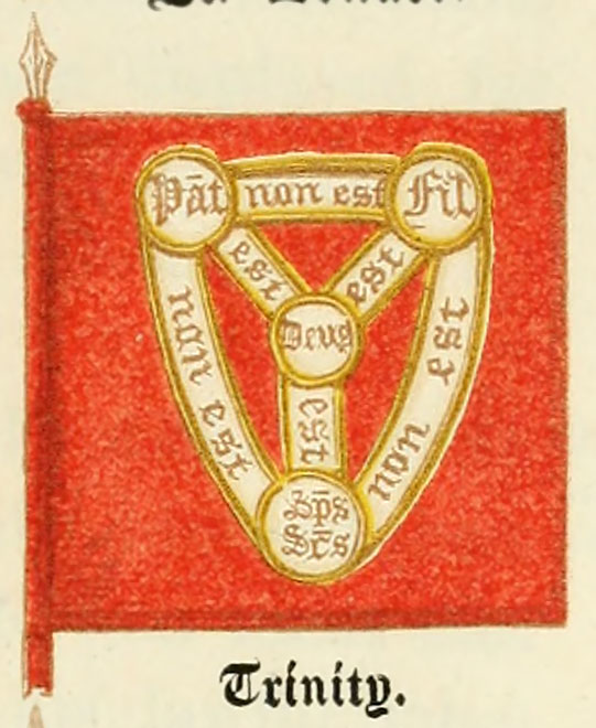 1833 reconstruction of the "Banner of the Trinity" flown by the army of Henry V at the battle of Agincourt